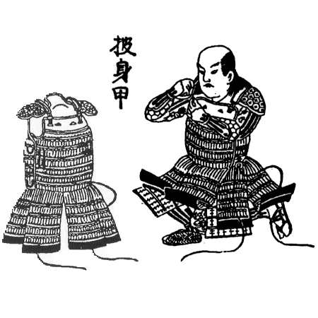 A Japanese Edo period wood block print showing a samurai putting on a dou or dō.